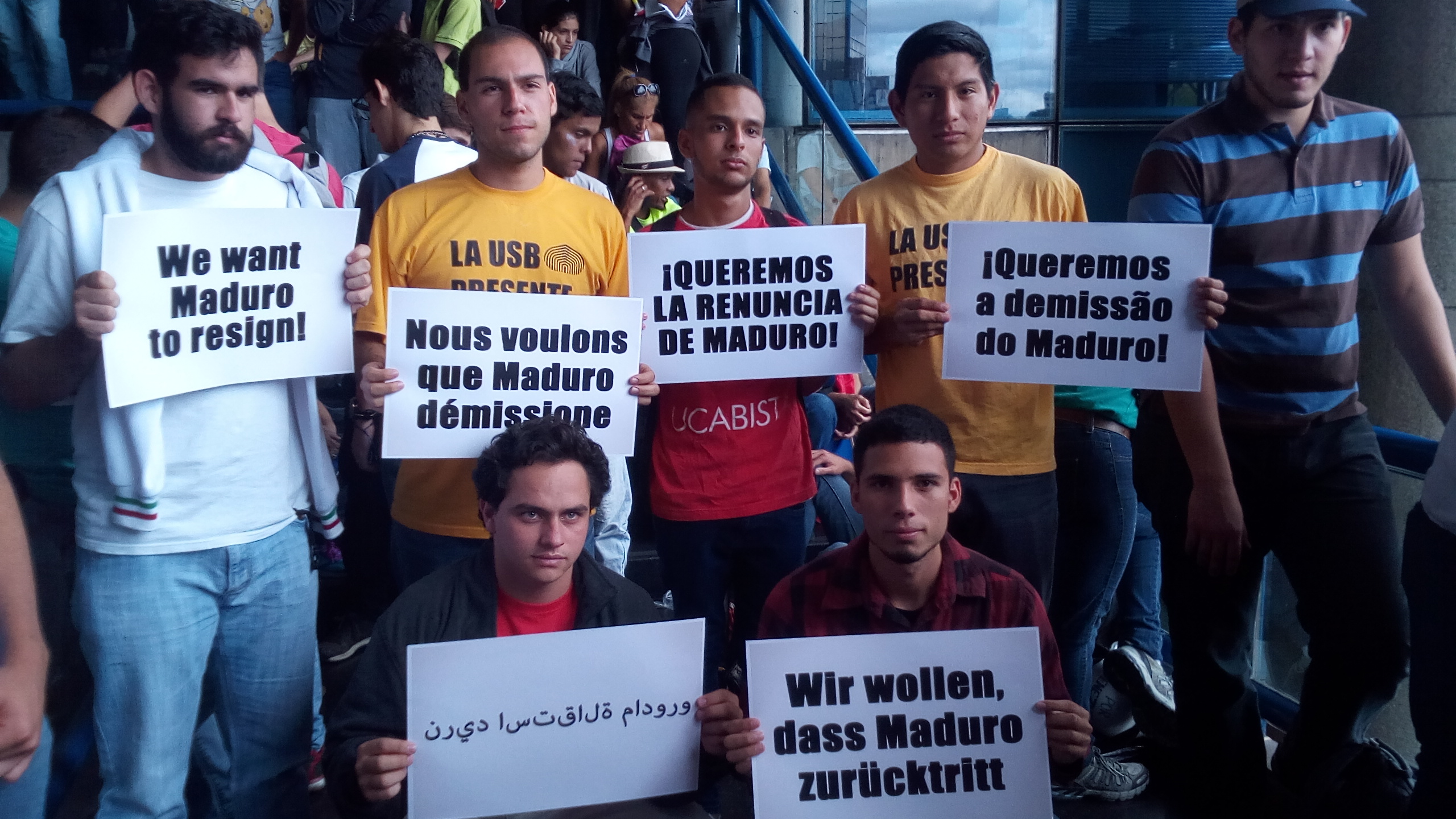 Students holding signs reading "We want Maduro to resign" in different languages